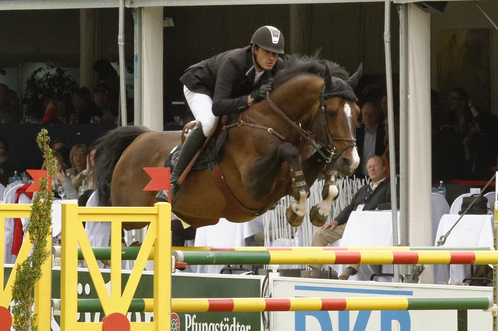 Internationales Pfingstturnier Wiesbaden 2013 The making of this document was supported by the Community-Budget of Wikimedia Germany.